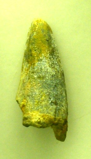 Took the photo at Museo di Storia Naturale di Milano